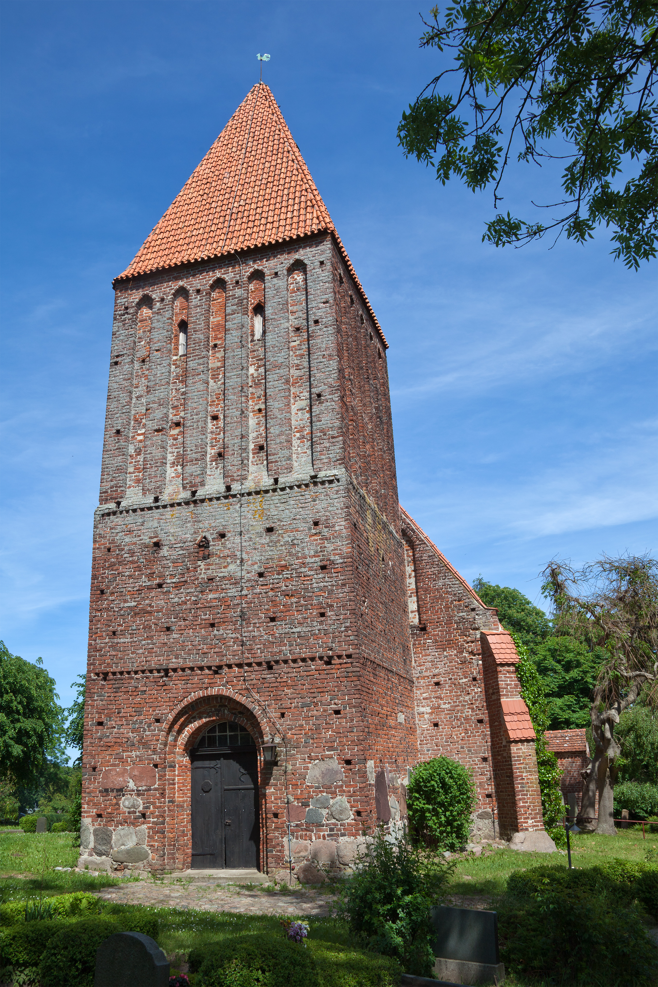 Lancken-Granitz, church "St. Andreas"